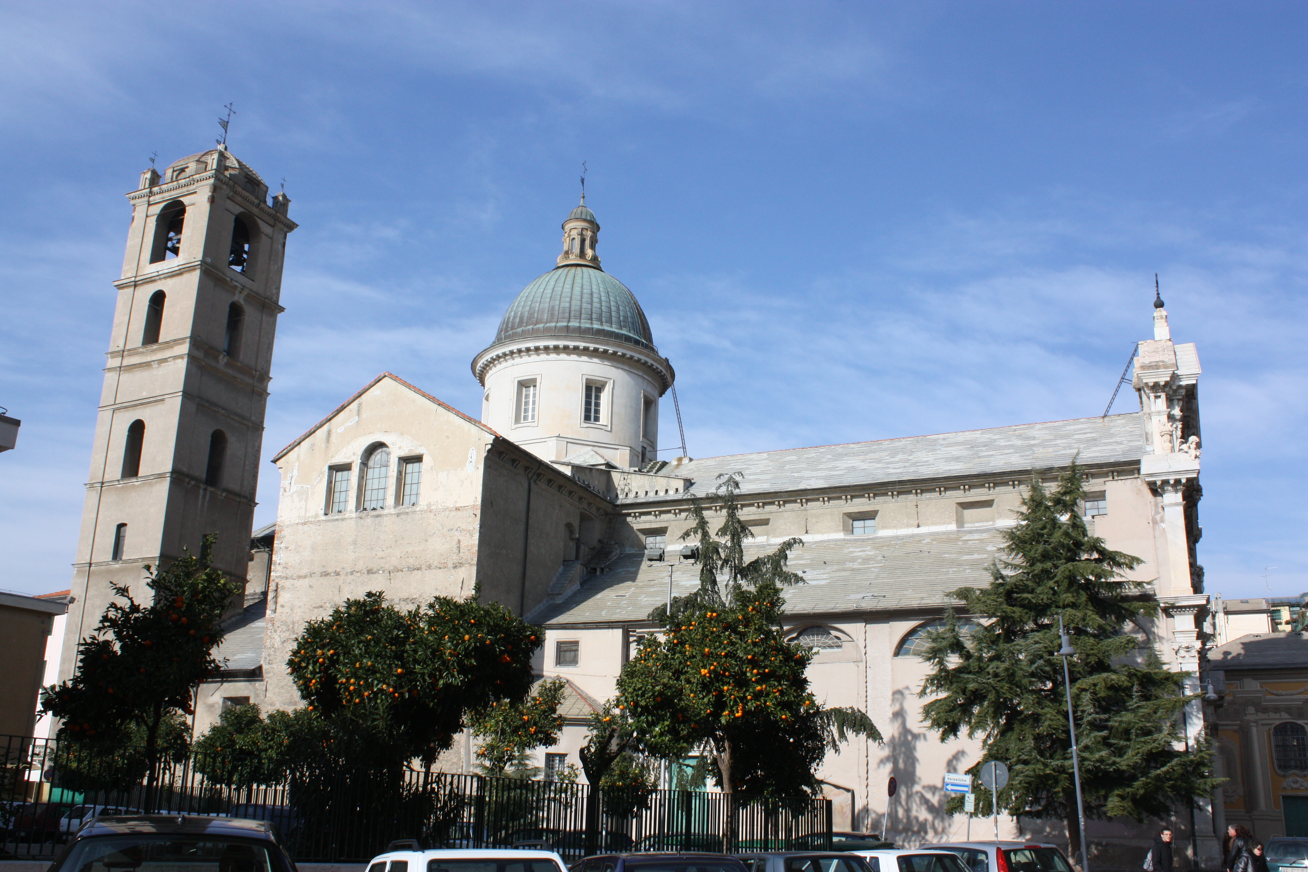 Cathedral in Savona, Italy.